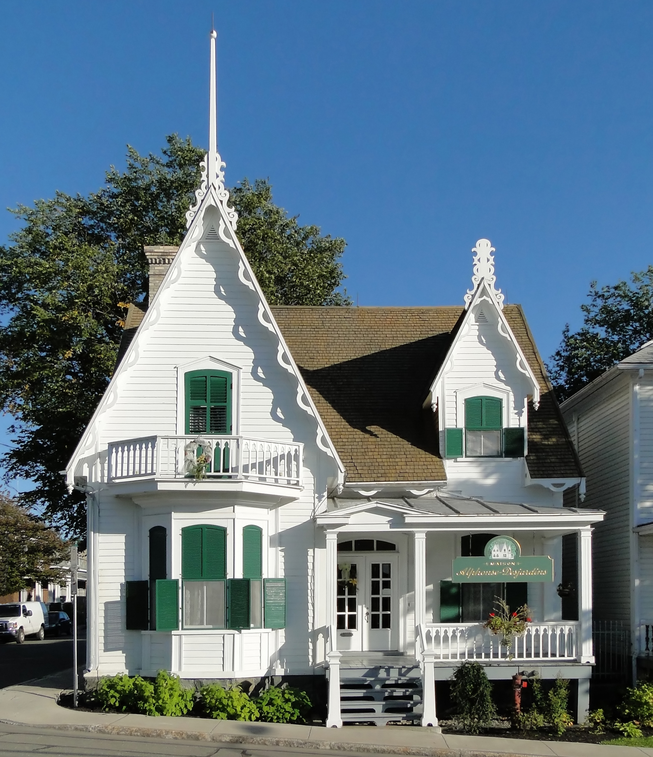 Alphonse Desjardins' House (1883) site of the first credit union in North America, Lévis, province of Quebec, Canada